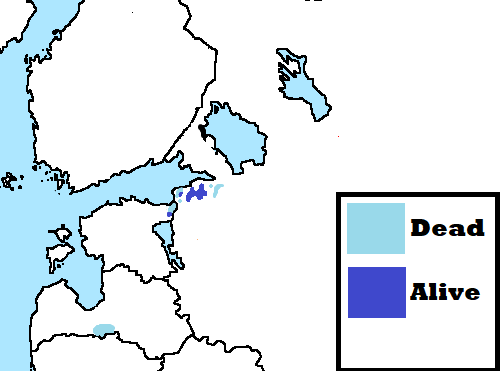 votic language